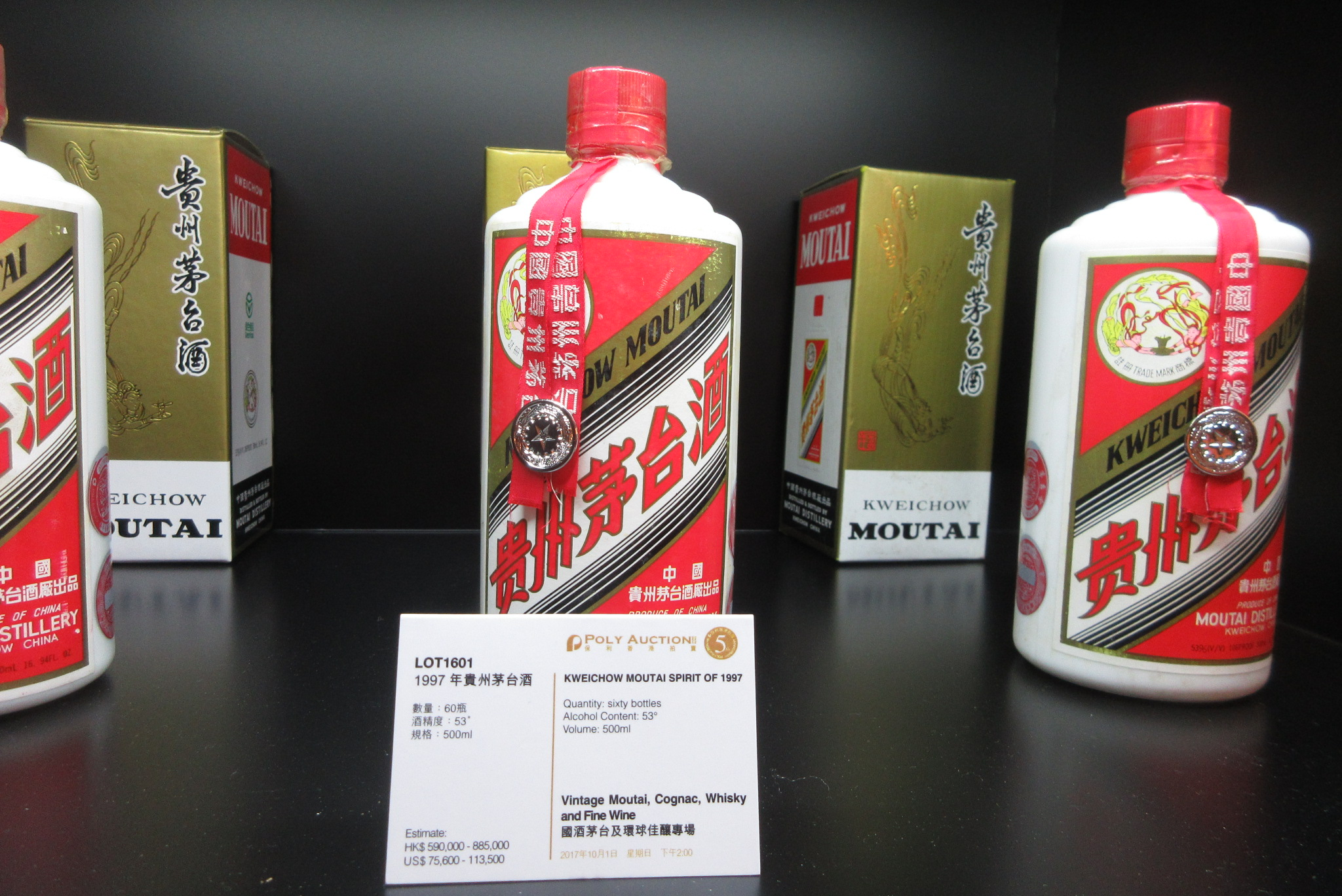 HK Wan Chai North 君悅酒店 Grand Hyatt Hotel 保利集團 Poly Auction Preview exhibition in September 2017